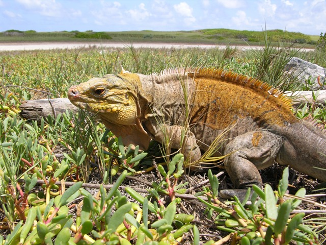 Picture of Cyclura rileyi taken by Dr William Hayes and uploaded with his permission.